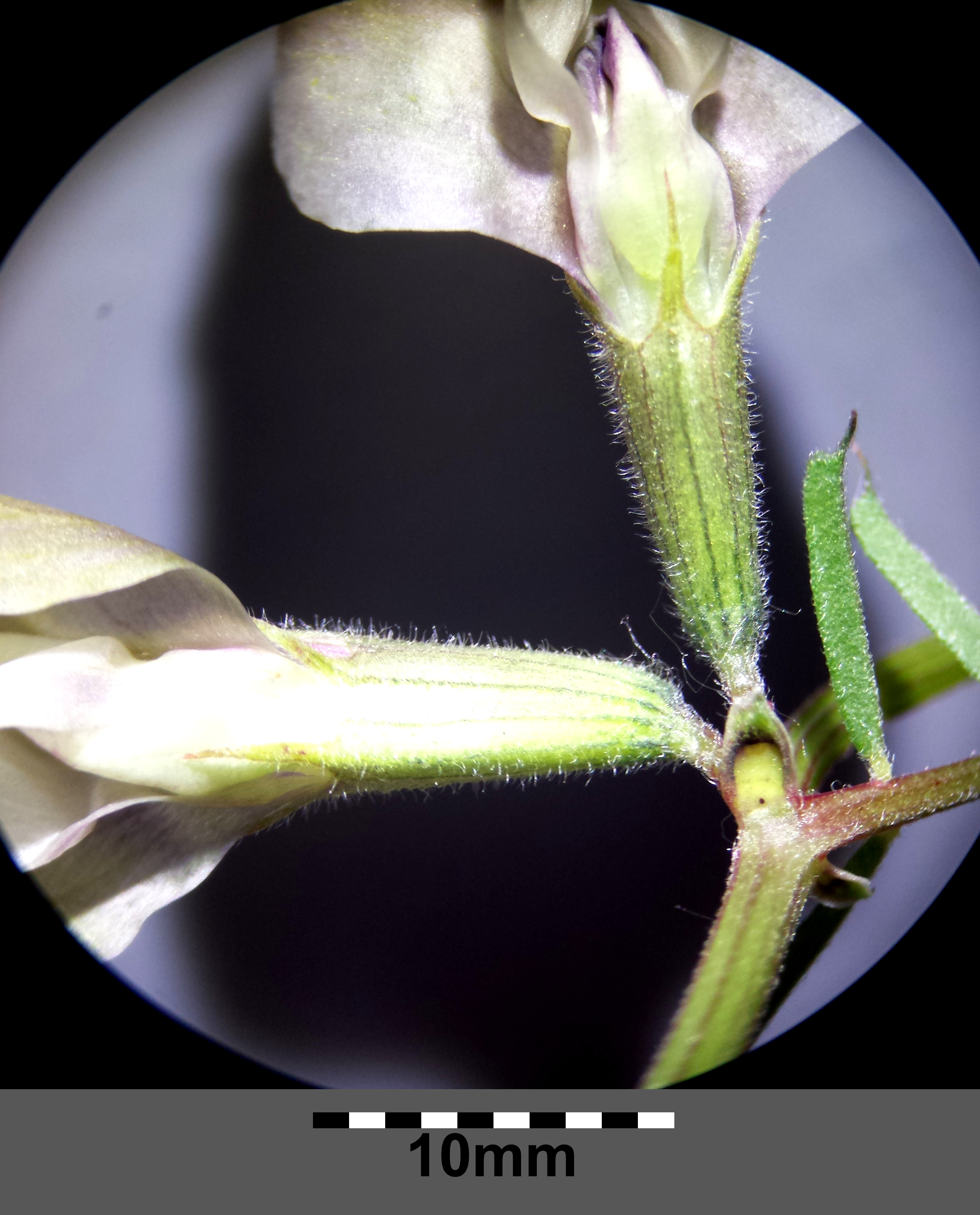 Calyces and stipule with nectary Taxonym: Vicia grandiflora "subsp." sordida ss Fischer et al. EfÖLS 2008 ISBN 978-3-85474-187-9 Location: abandoned marshalling-yard Breitenlee, Vienna-Donaustadt - ca. 160 m a.s.l. Habitat: semi-dry grassland